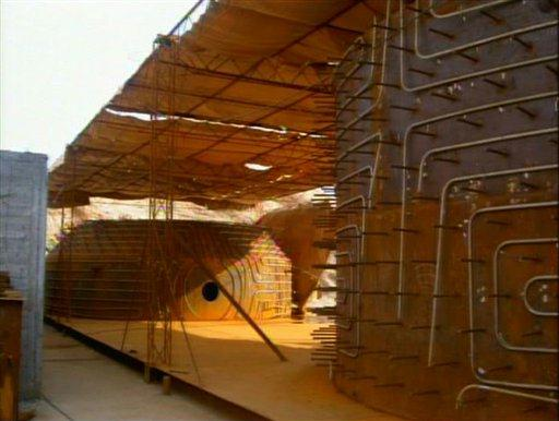 Reactor vessel shell under construction, Syrian nuclear reactor